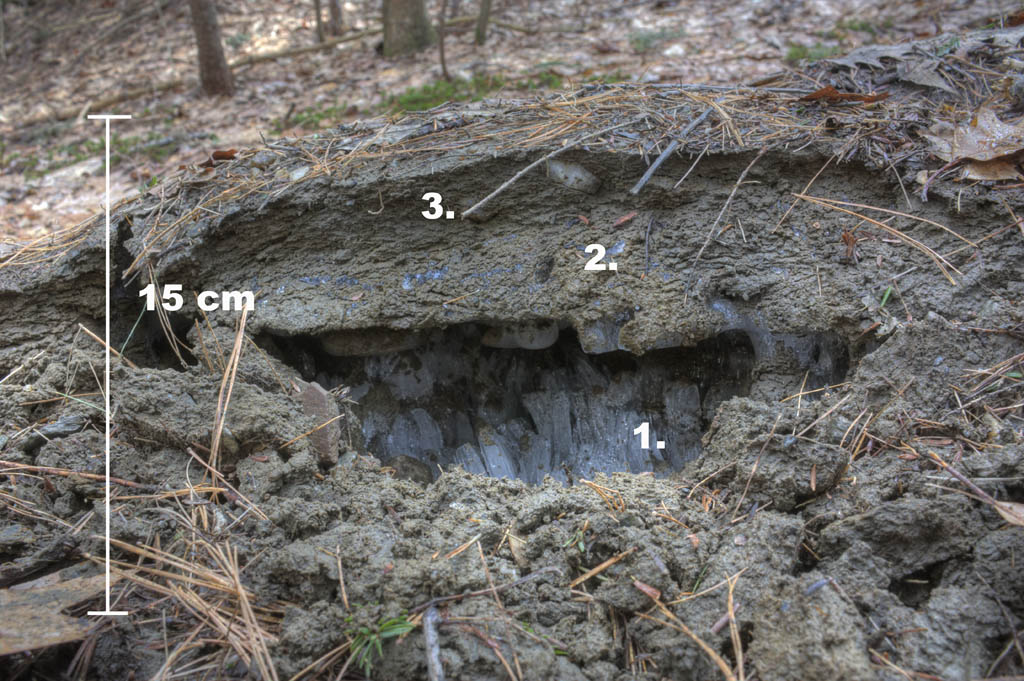 Anatomy of a frost heave during spring thaw. The side of a 6-inch (15-cm) heave with the soil removed to reveal (bottom to top): 1. Needle ice, which has extruded up from the freezing front through porous soil from a water table below 2. Coalesced ice-rich soil, which has been subject to freeze-thaw 3. Thawed soil on top. Photograph taken 21 March 2010 in Norwich, Vermont.